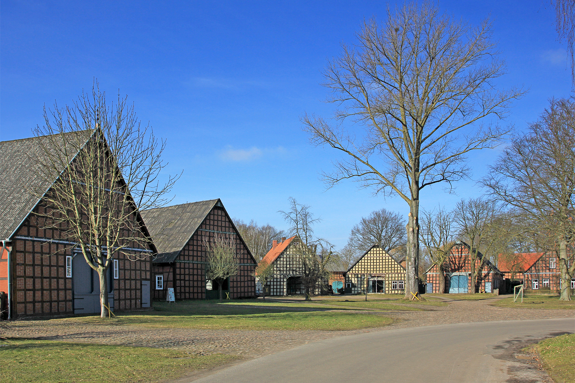 Part of the village Satemin (district Lüchow-Dannenberg, northern Germany) with typical local form of settlement, called "rundling".